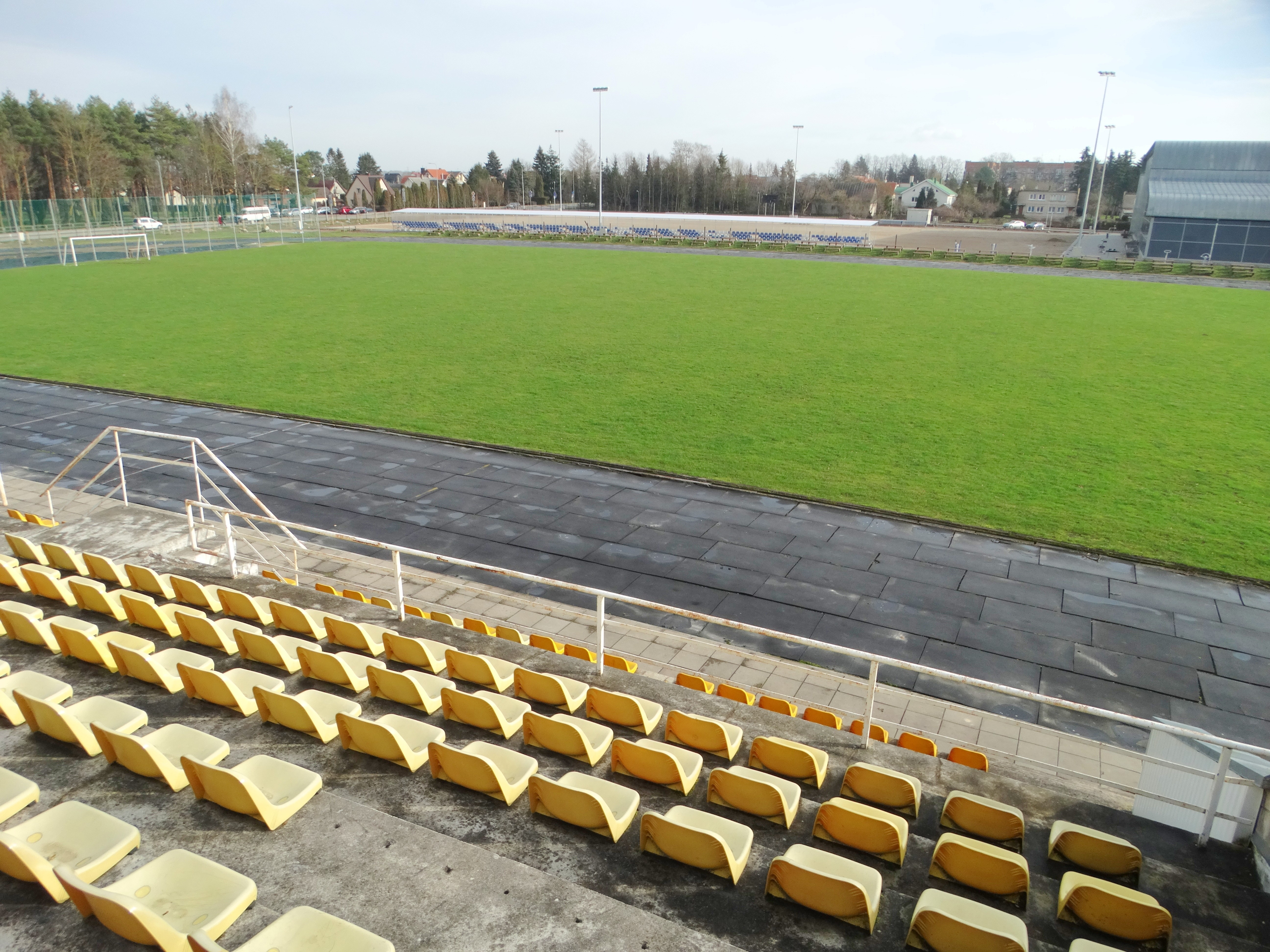 Football stadium, Kretinga, Lithuania